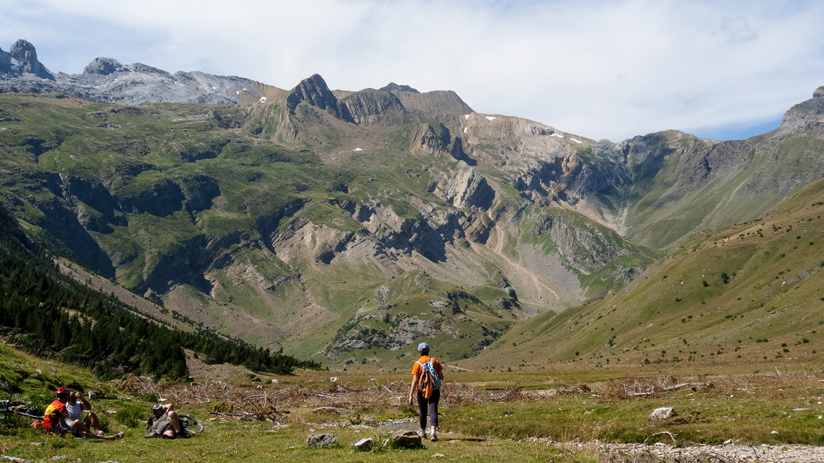 Valle de Otal This is a photography of a Site of Community Importance in Spain with the ID: ES2410006. Natura2000 entry, EEA entry